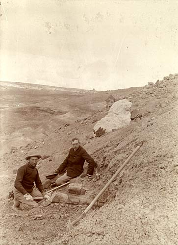 Barum Brown (left) and Henry Osborn (right) at Como-Bluff during the American Museum of Natural History expedition of 1897. At front - limb bone of Diplodocus (AMNH 17808)